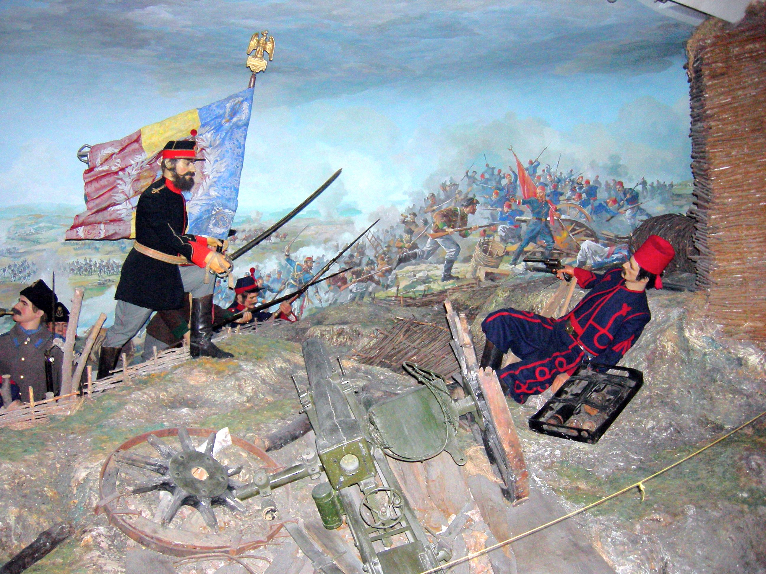 Diorama of the Battle of Plevna from the Military Museum, Bucharest, Romania. The artillery piece is a model of a German-made Krupp 8 cm Stahlkanone C/64.